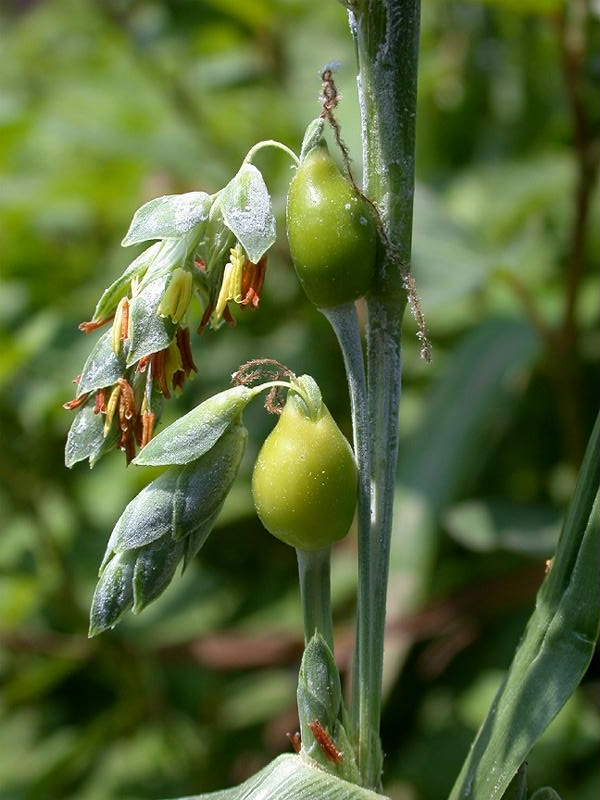 Name Coix lacryma-jobi Family Poaceae Inflorescence of Coix lacryma-jobi. Showing anthers from male spiculas, and stigmas fro female spicula. Date;2005,09;Tanabe city, Wakayama prefecture, Japan Author;Keisotyo